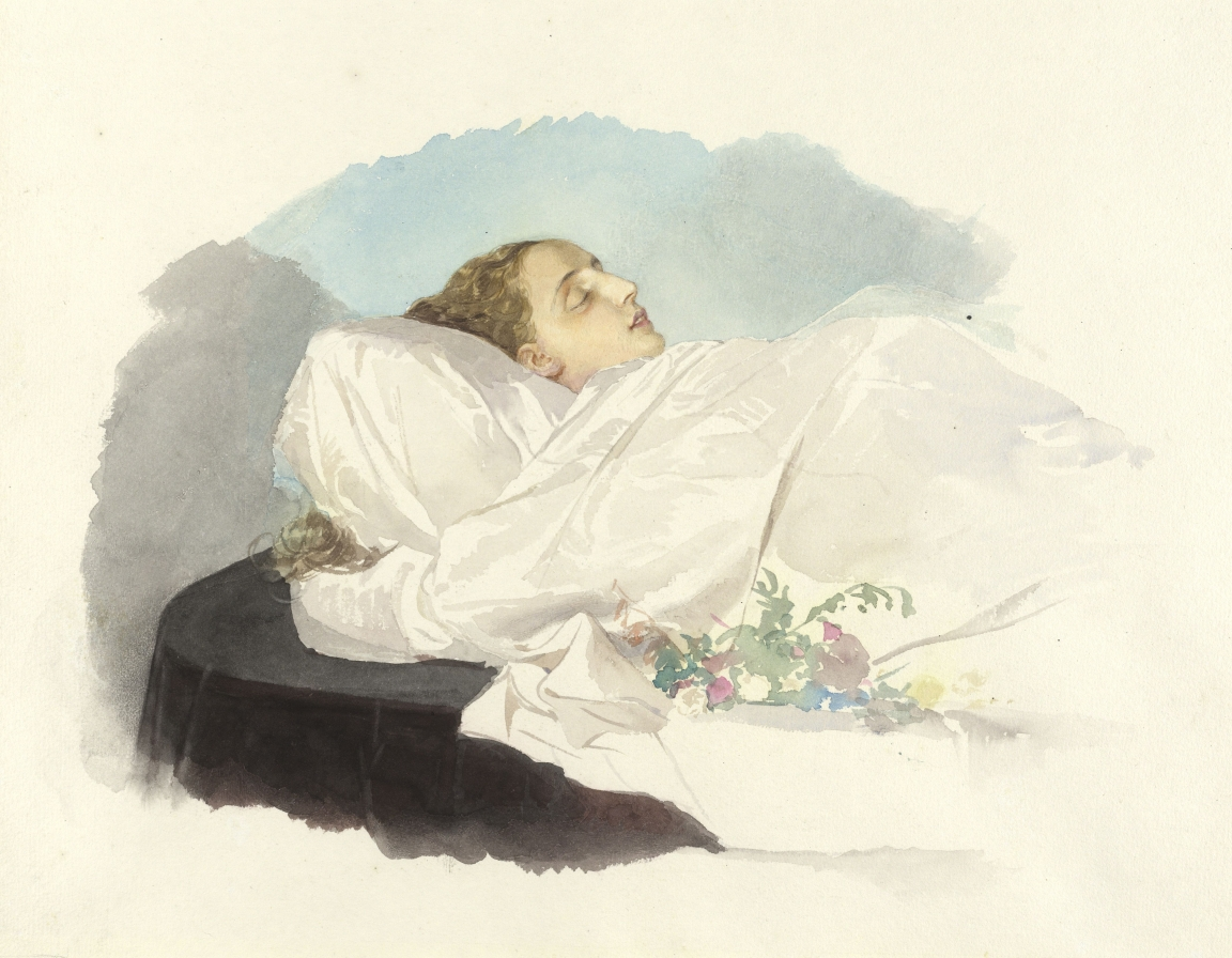 Princess Maria Annunciata of Bourbon-Two Sicilies on her deathbed